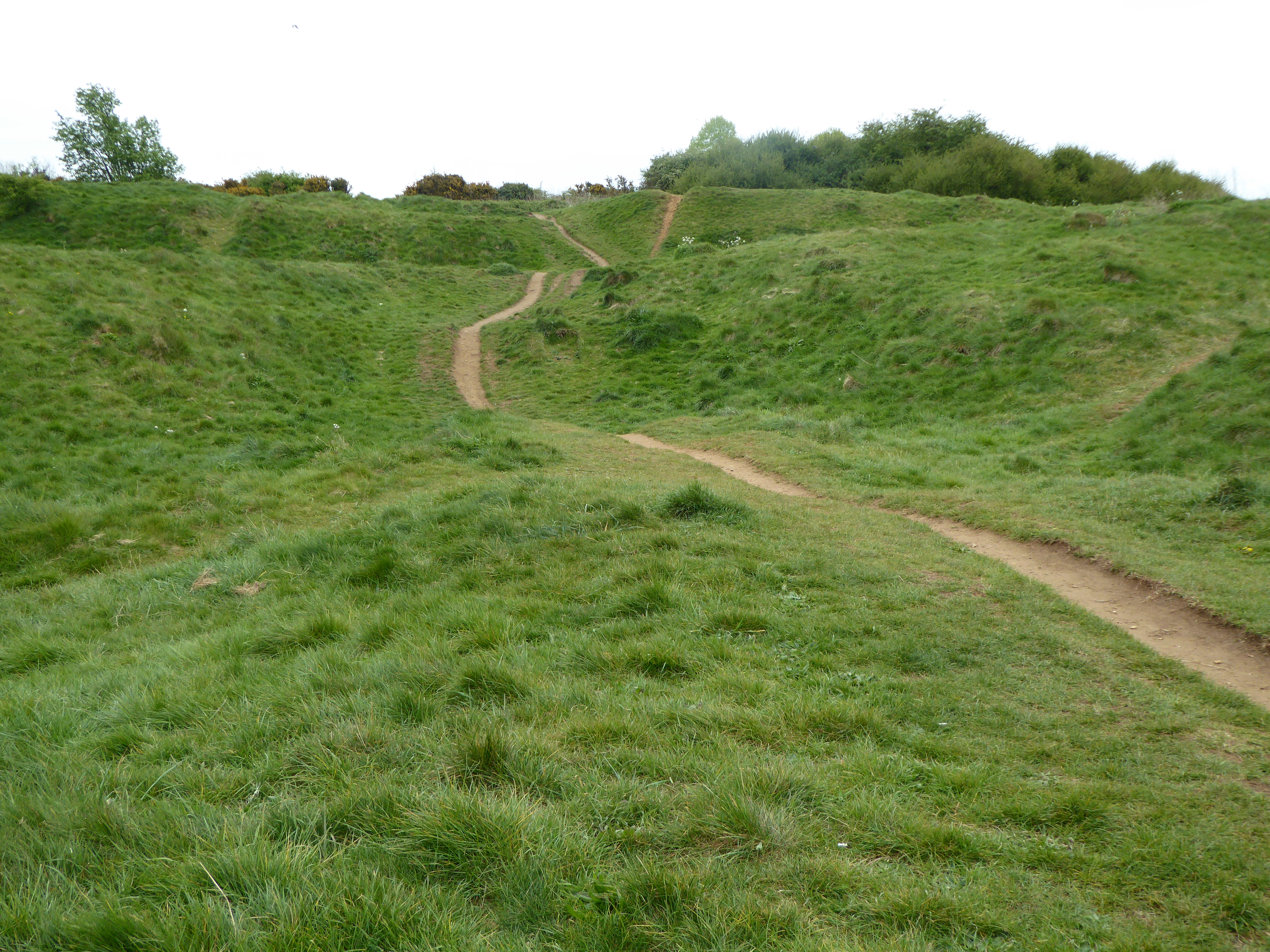 Hills and Holes is a Local Nature Reserve in Northampton. It is part of the Bradlaugh Fields nature reserve, which is managed by the Wildlife Trust for Bedfordshire, Cambridgeshire and Northamptonshire.